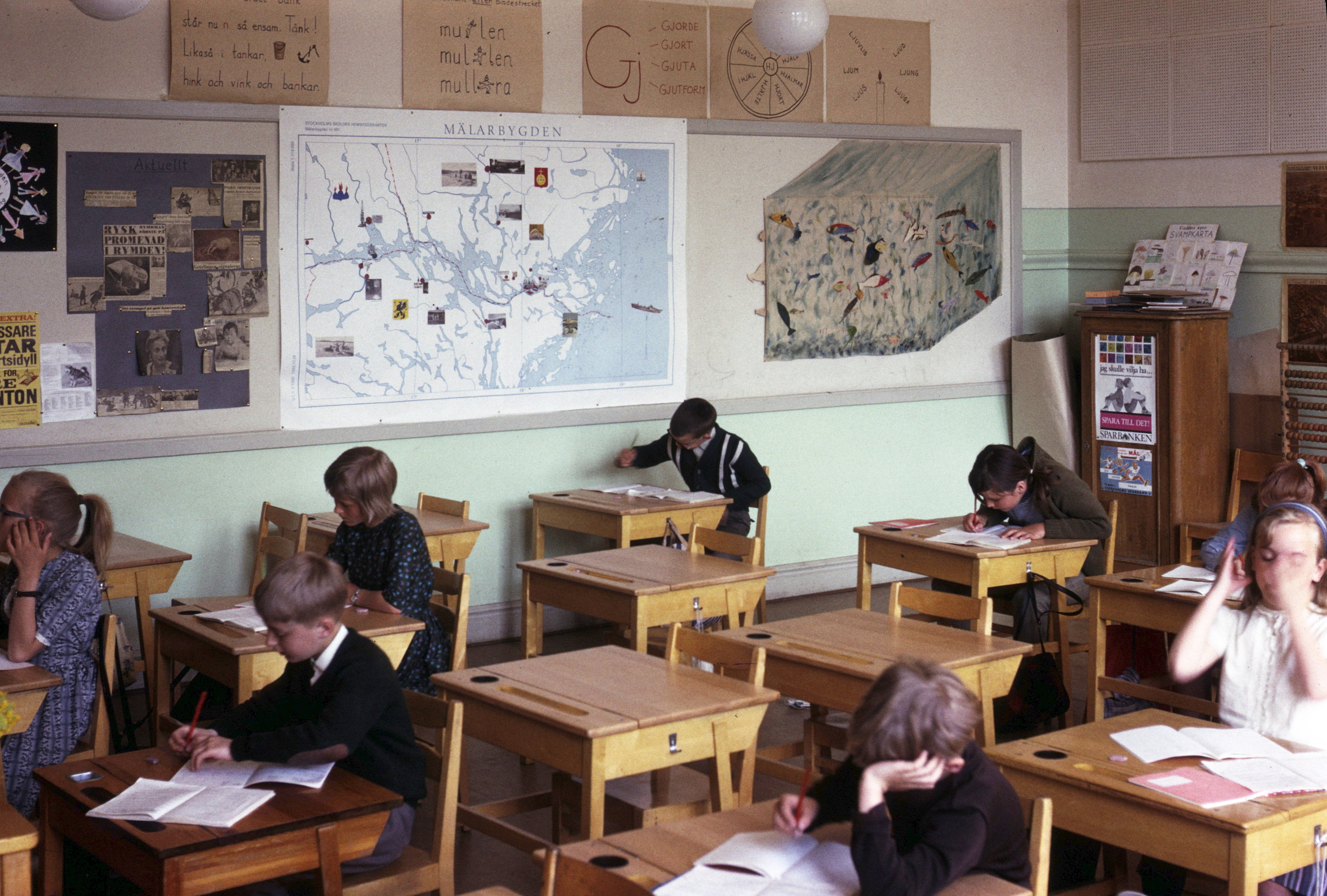 Matteus skola; John at work in Swedish school